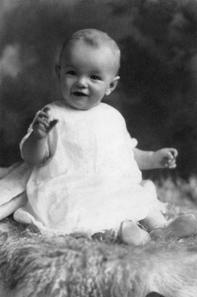 Photo of Marilyn Monroe as a baby from the October 1953 issue of Modern Screen. Note this is a larger, better quality copy of the photo seen on Modern Screen page 34. A renewal search was done at using the title Modern Screen. There were no listings for the publication; there's no evidence of continued copyright on the magazine.